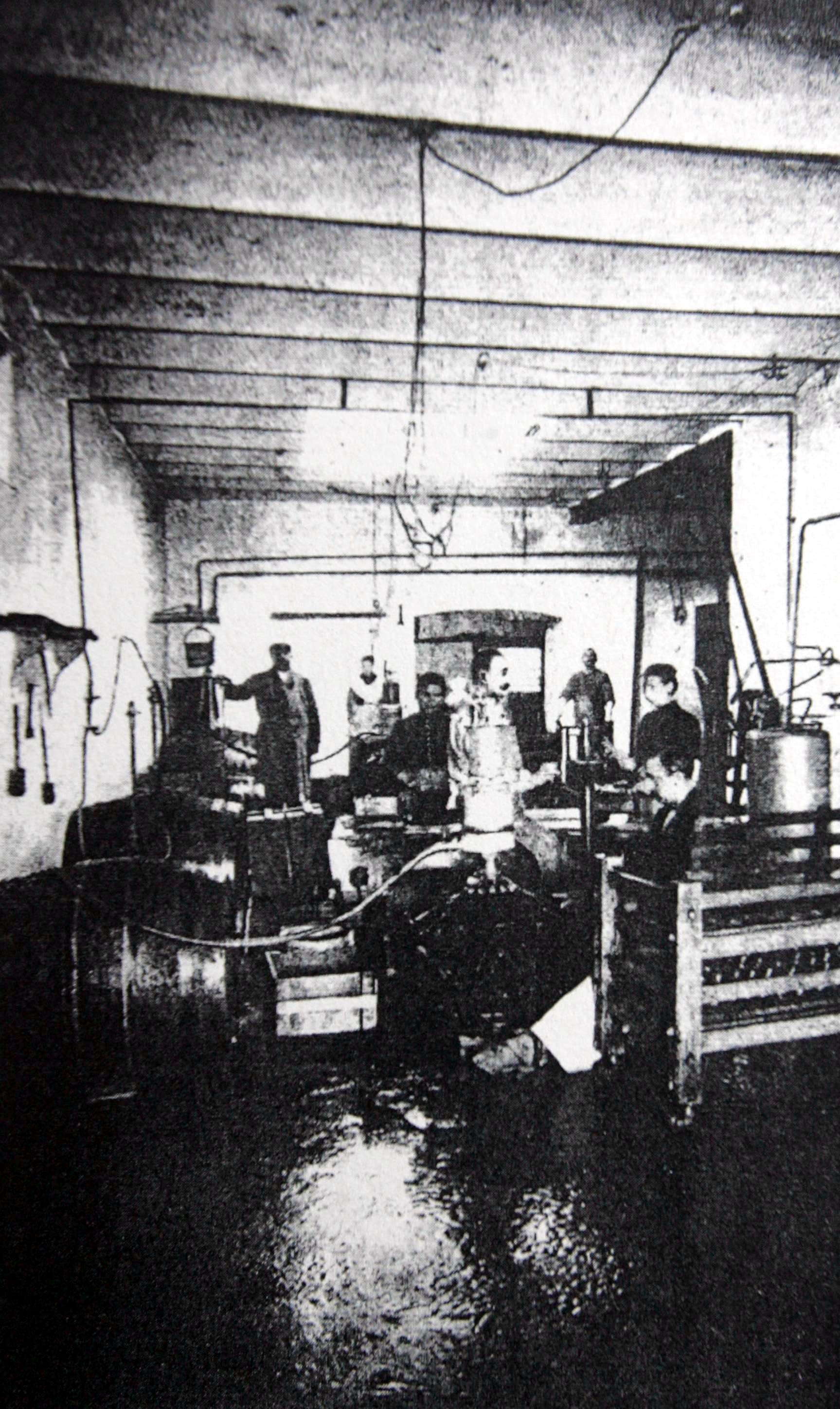 Bottle-Station Lück Brewery